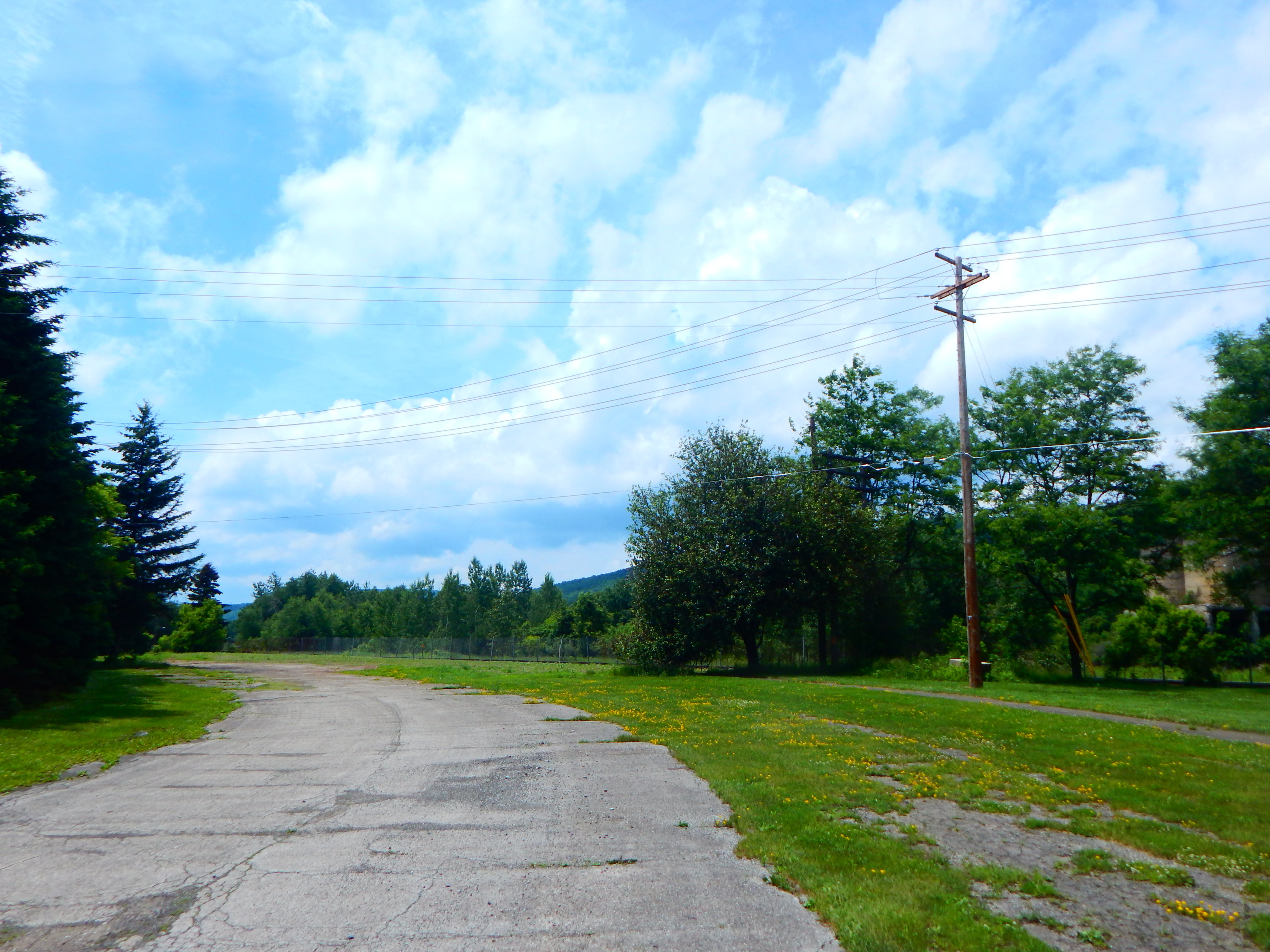 The former Salamanca station of the Erie Railroad after a July 2014 fire and its demolition.